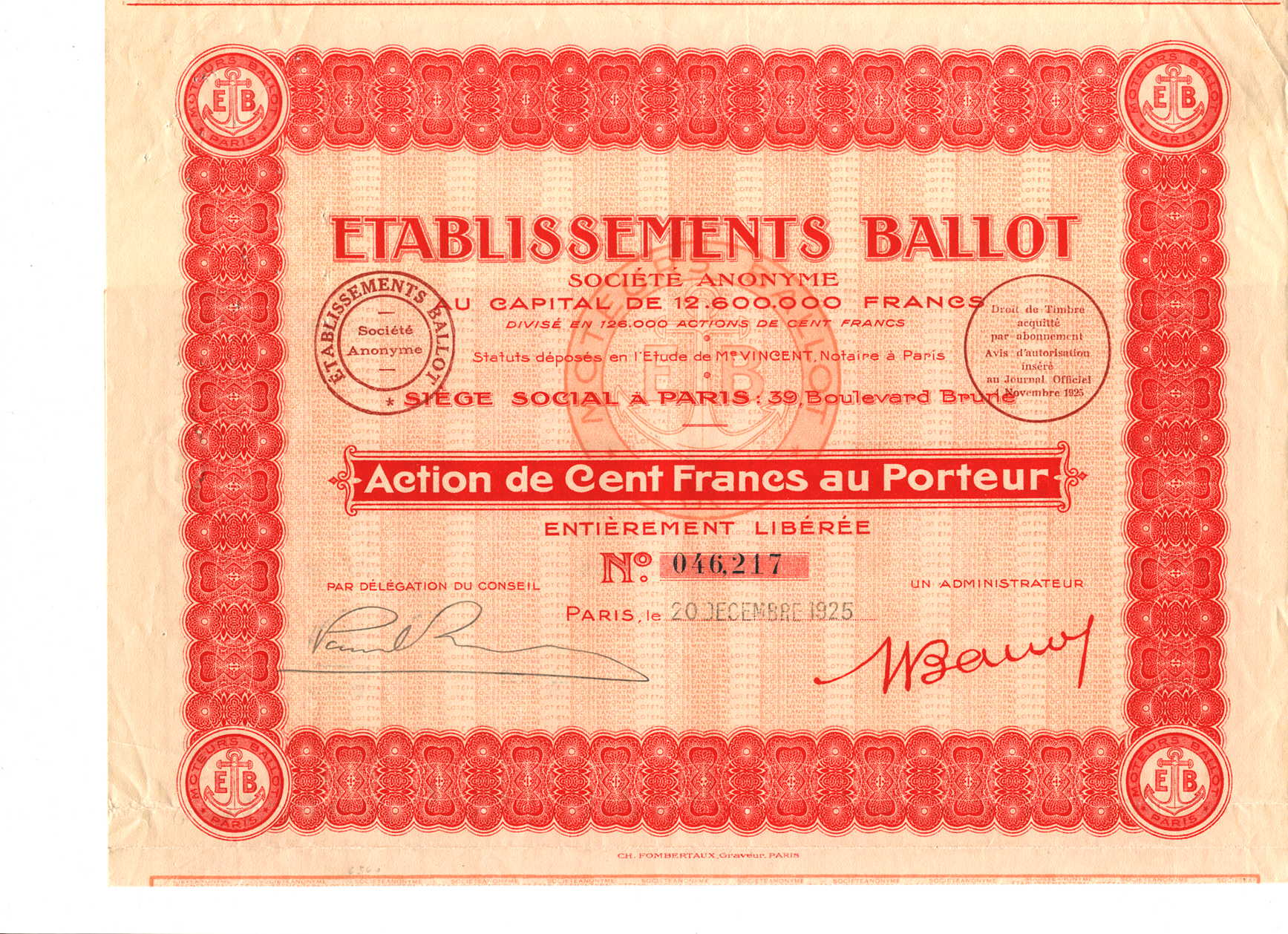 Scan from historic paper taken by user